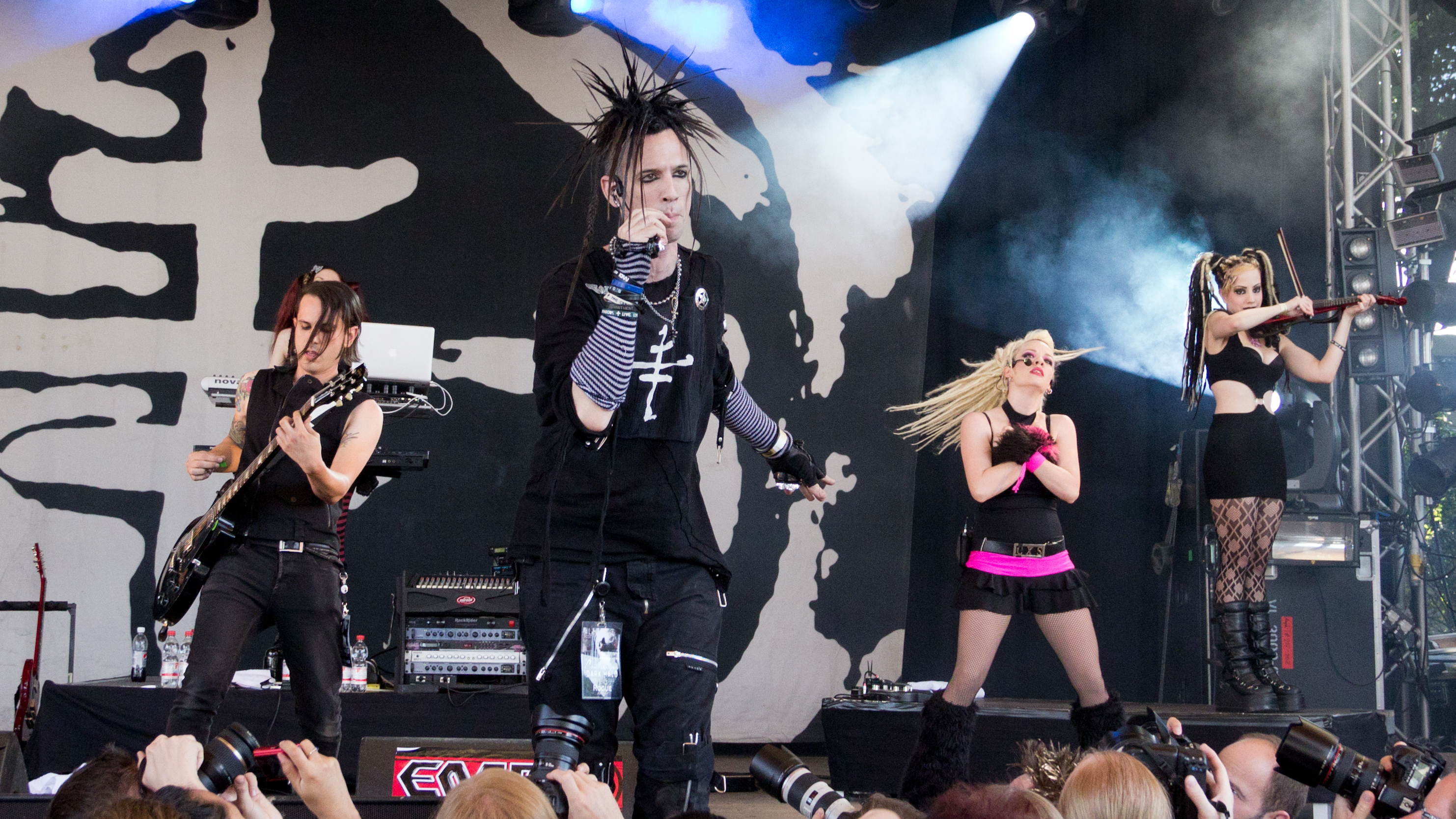 The Crüxshadows 08